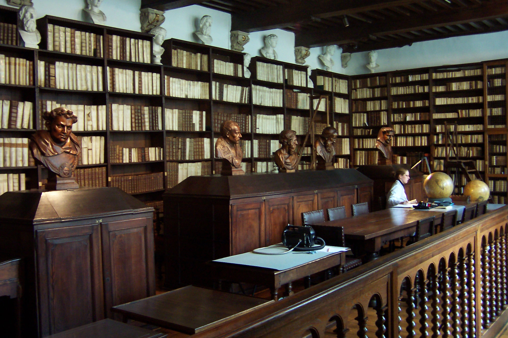 Library of Plantin-Moretus Museum in Antwerp, October 2005.